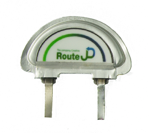 Speciality of RouteJD's Flexible Lithium-ion Polymer Battery * Design Flexibility: Capability of flexible design of battery shape is achieved through integration of 'Encapsulation Technology' and stacking process. * Safe and Reliable: Safety is ensured with the 'Encapsulation Techology' that has removed internal short circuit errors and consistent alignment of electrodes using fully automated production line.